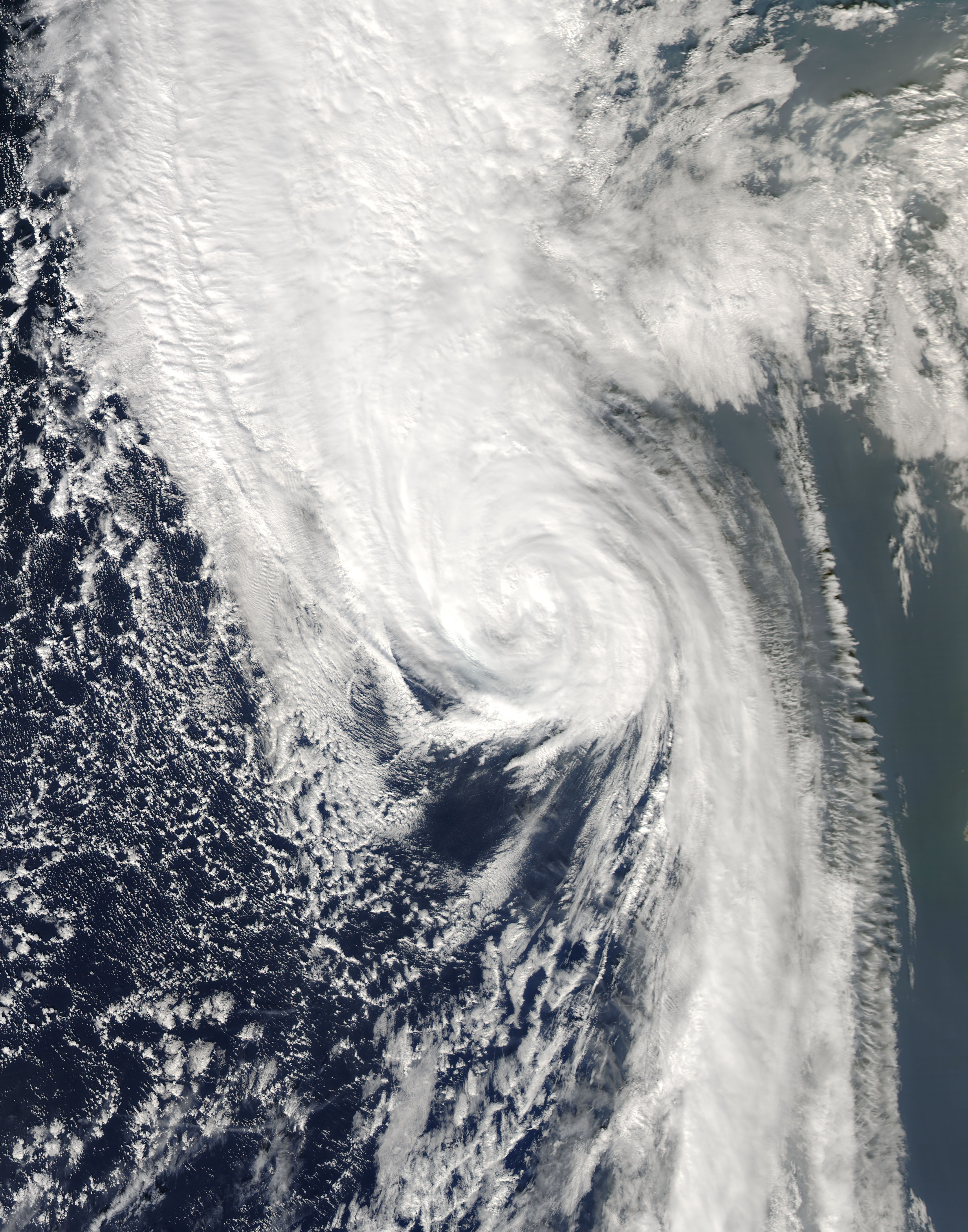 Hurricane Ophelia (17L) in the Atlantic Ocean